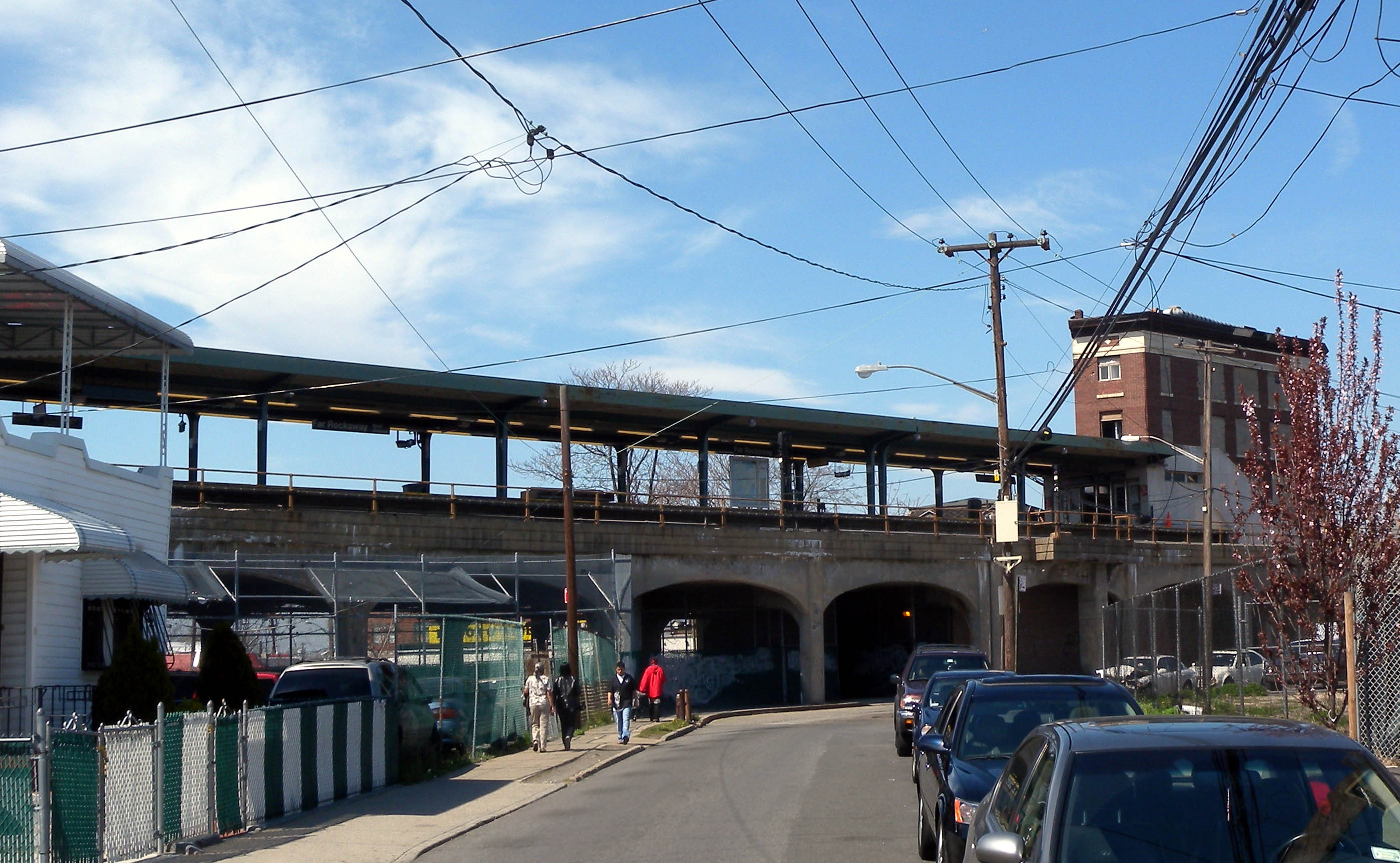 Looking northeast along B22nd Street at the terminal station on the Far Rockaway subway viaduct on a sunny early afternoon.